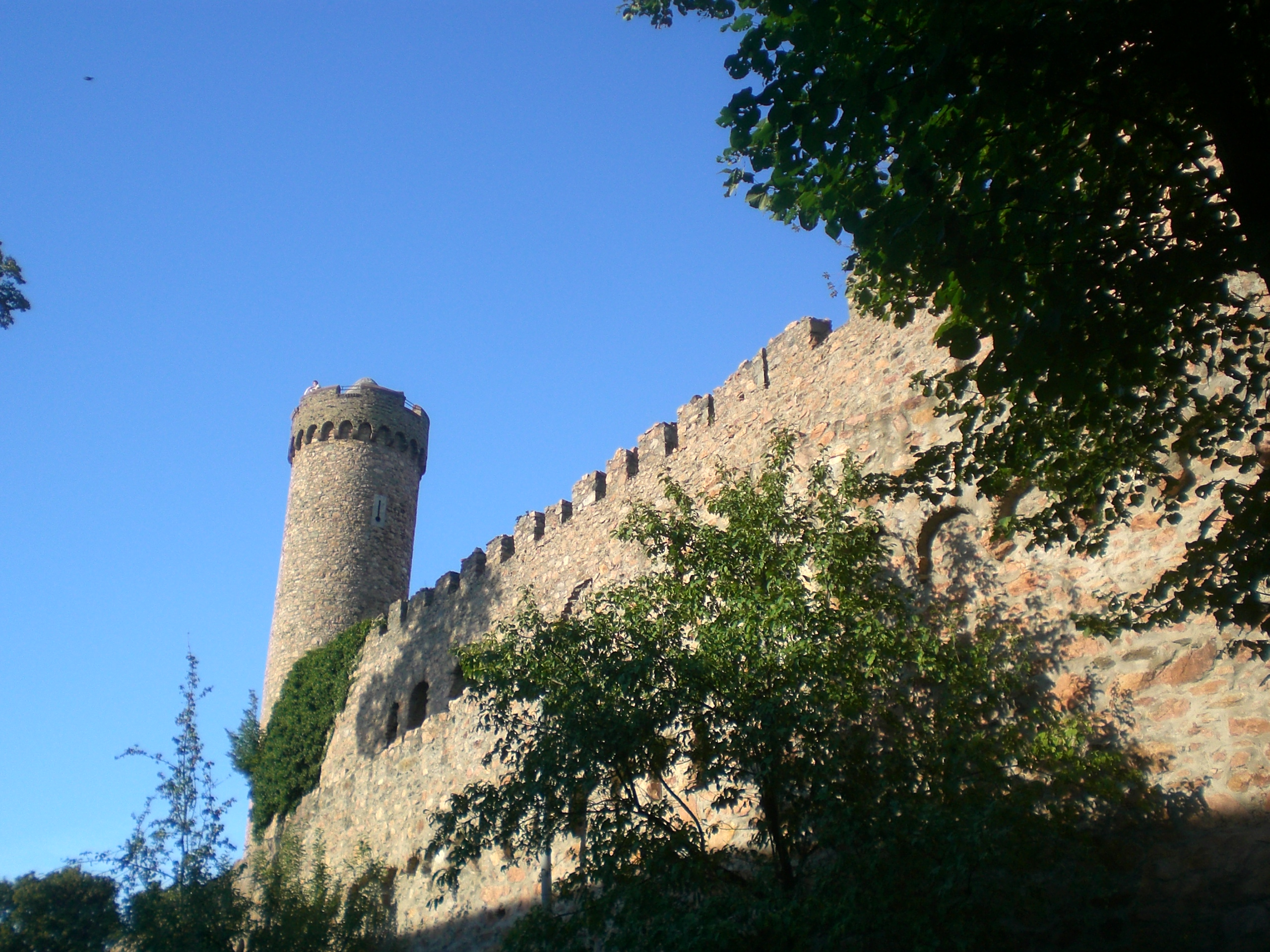 Auerbach Castle in Bensheim, Germany